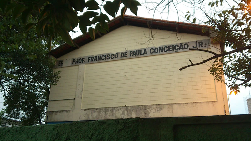 Front wall of Public State School Professor Francisco de Paula Conceicao Junior, located in Jardim Mitsutani neighborhood.